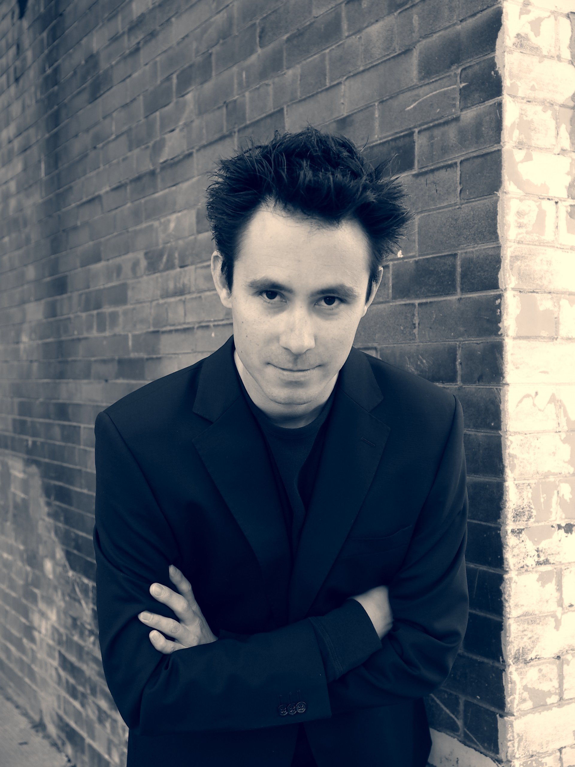 Jonathan Seet